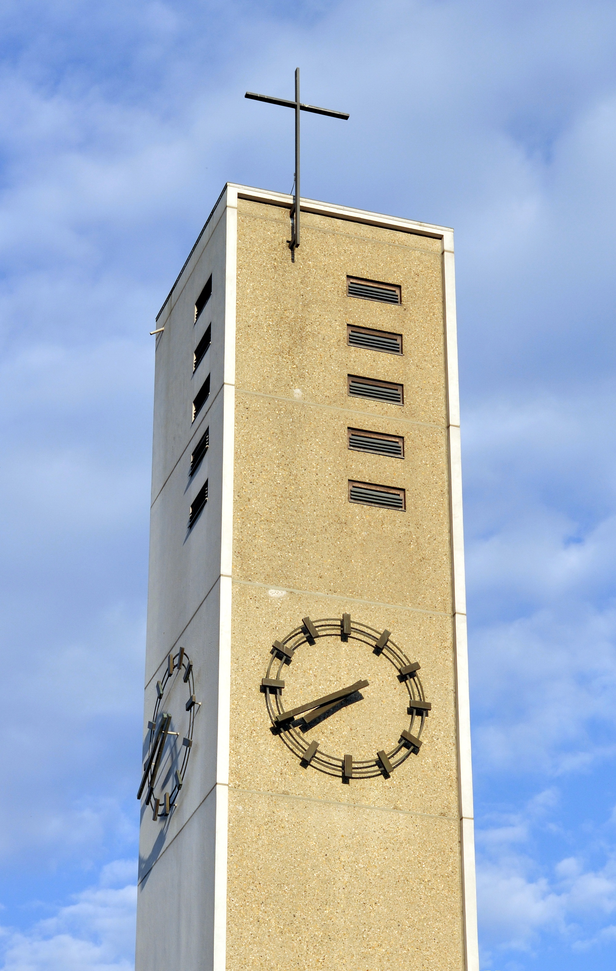 Lörrach: Holy Family Church